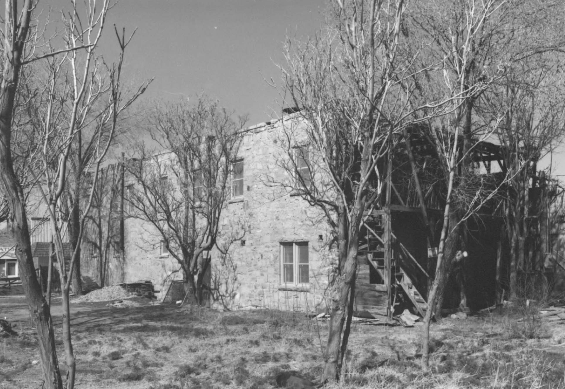 The rear of the Isaacson Building, ca 1983 ISAACSON BUILDING ST. JOHNS, ARIZONA VIEW LOOKING NORTHEAST